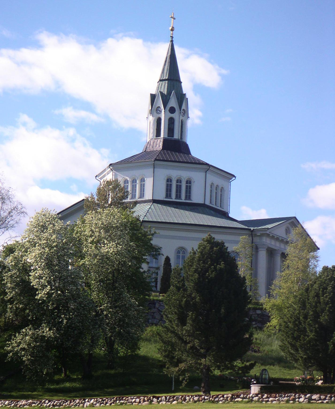 church